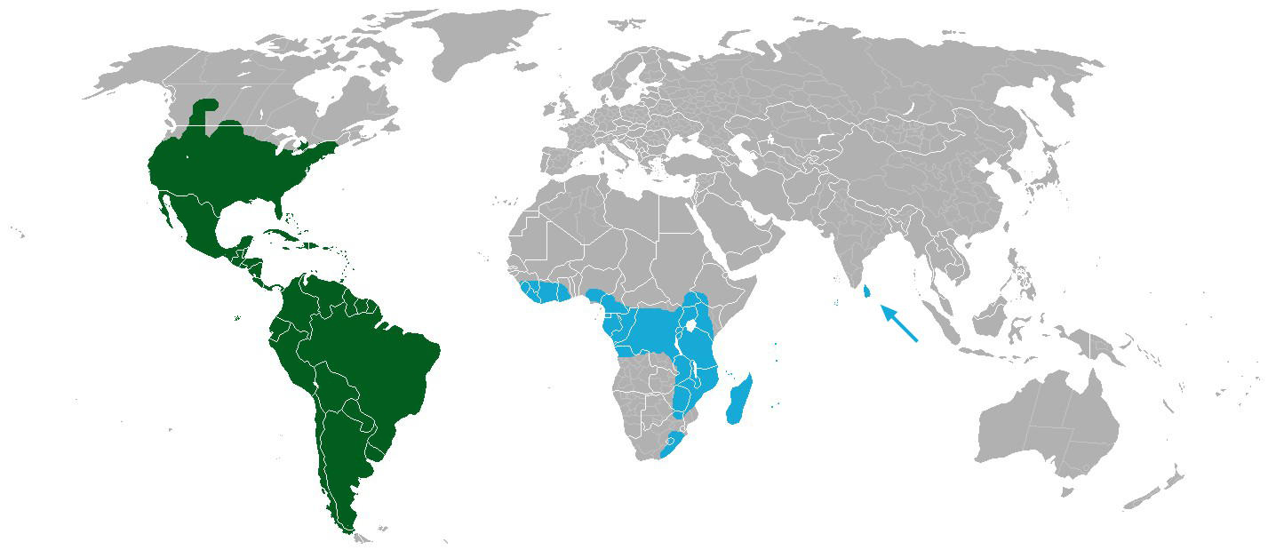 Distribution of Cactaceae Rhipsalis baccifera: Africa and Sri Lanka All other cacti Source of information